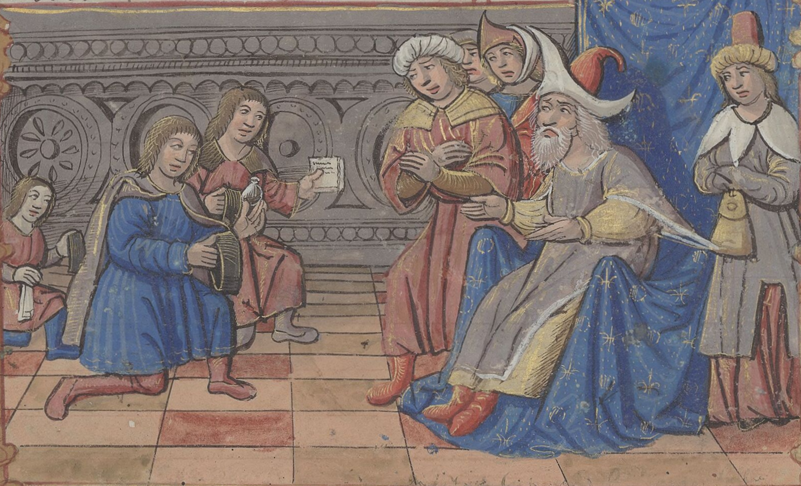 Kublai Khan meeting Marco Polo (according to the nomination file of "Site of Xanadu" for world heritage site, p.328 , the place is Xanadu City)